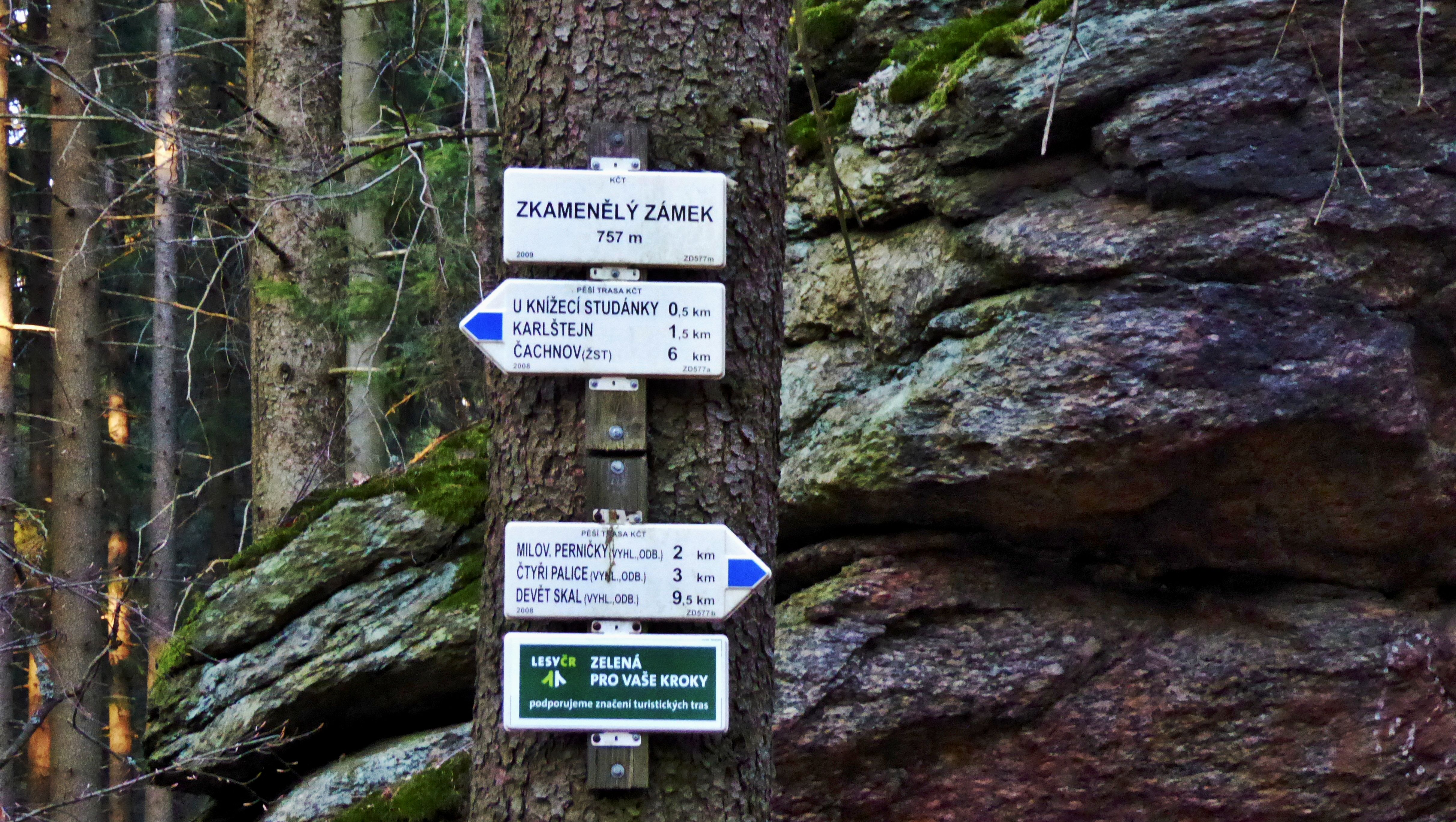 Rock group called Petrified Chateau, natural monument of Žďár Hills. The tourist trail of the Czech Tourists Club passes between the rocks (blue marking). View of the tourist signs of the Czech Tourists Club (approx. 757 m above sea level). The highest rock called Chateau Tower (765 m above sea level) outside the photo. Photo-location: Czechia, Vysočina Region, the town of Svratka, a group of rocks called Petrified Chateau (azimuth 70°).